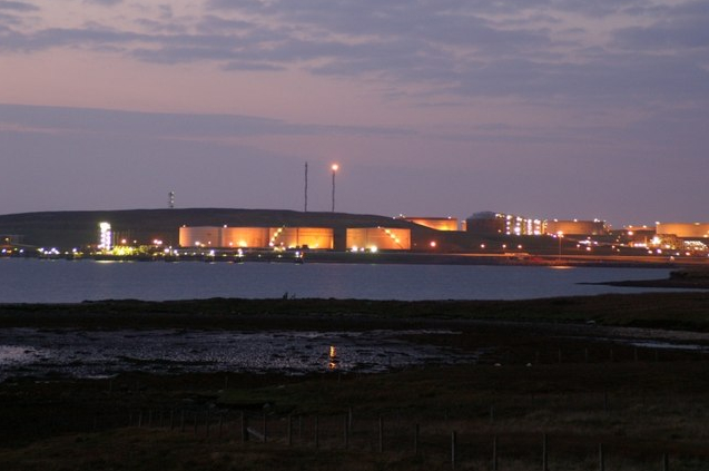 Sullom Voe oil terminal at dusk, from the Houb of Scatsa